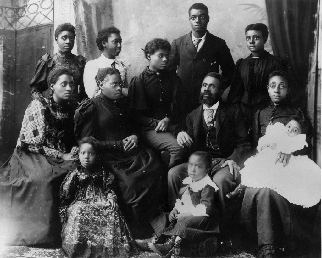 Identified by Miss Alice Osborne in 1967. Family of Mrs. (Maria) and "Sam" Osborne. Beloved janitor at Colby College 1867-1904 (37 yrs.) 1st row: Beatrice, granddaughter, daughter of Flora (Mrs. Emilie N. Strang); Harold (grandson, son of Lulu (Mrs. Edward Connor.) 2nd row: Amelia (daughter) became a nurse; also House mother at D U House (Colby,) Mrs. Osborne (Maria Iverson,) Flora (Mrs. Emilie N. Strang,) Mr. "Sam," Lulu (Mrs. Edward Connor,) baby in arms, Ethel, granddaughter and daughter of Lulu. 3rd row: Anna (daughter) a fine pianist, who died in the South (1902?), Alice E. (daughter) who died in Jan. 23, 1968 in Waterville, Maine, Edward Samuel (son) (Colby n1897=attended one year 1893-94,) Marion Thompson (Mrs. D.G. Matheson died 1954) Colby 1900 (daughter) Date: ca. 1890; Location: Creation site:Waterville, Maine; Material: black and white photography; Measurements: 8 x 10 inches